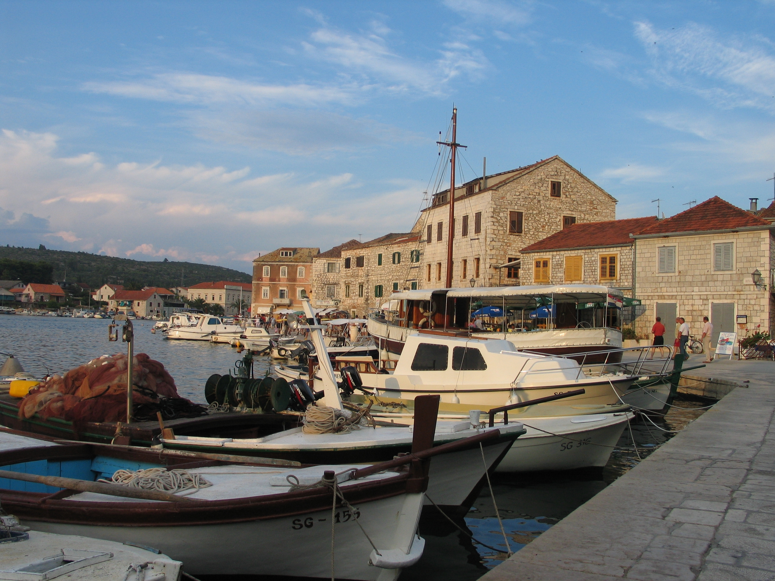 The centre of Stari Grad. Made by Klaus Billet in the summer of 2004.